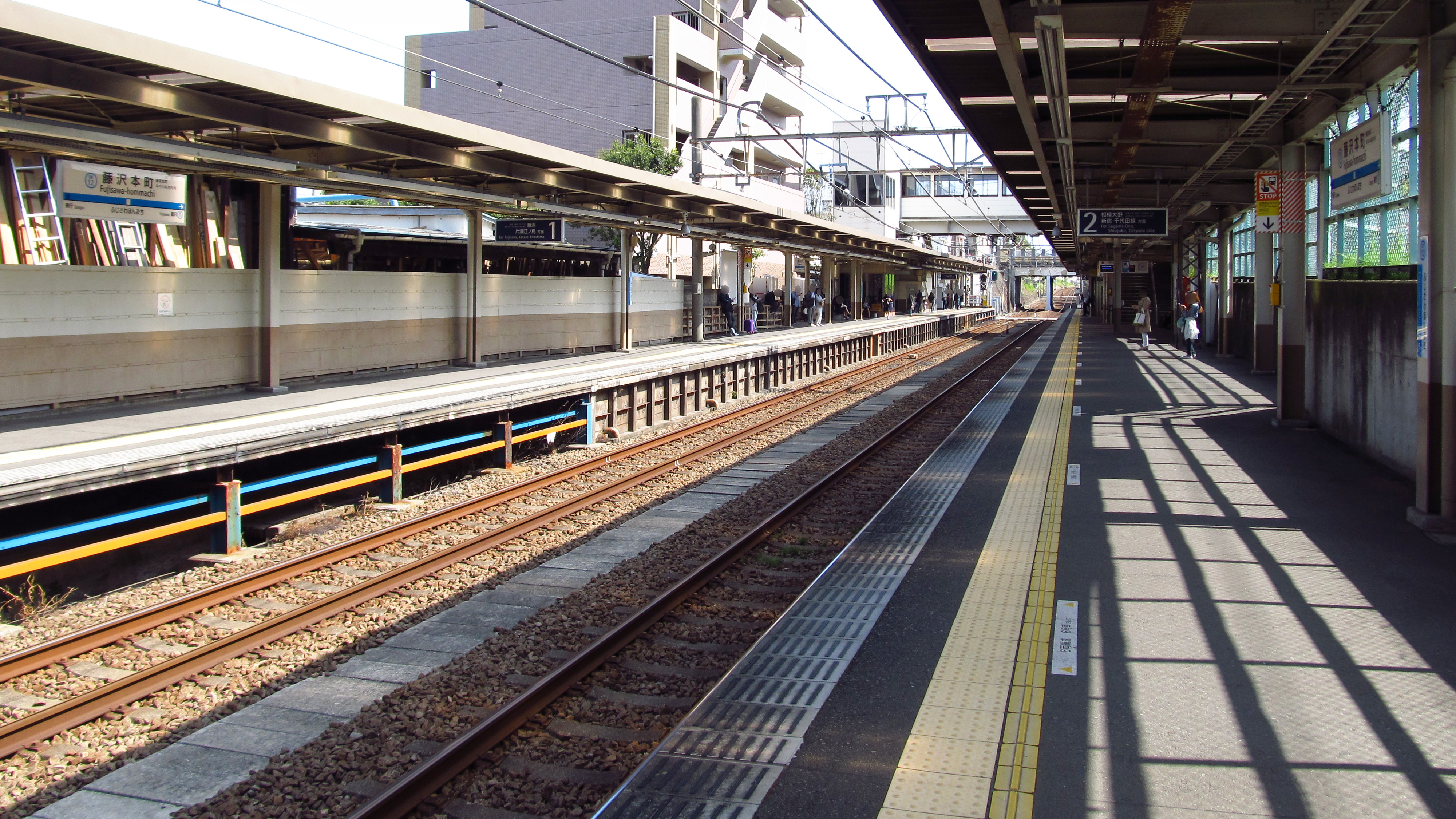 The platforms at Fujisawa-Hommachi Station on the Odakyū Electric Railway Enoshima Line in Fujisawa city, Kanagawa prefecture, Japan